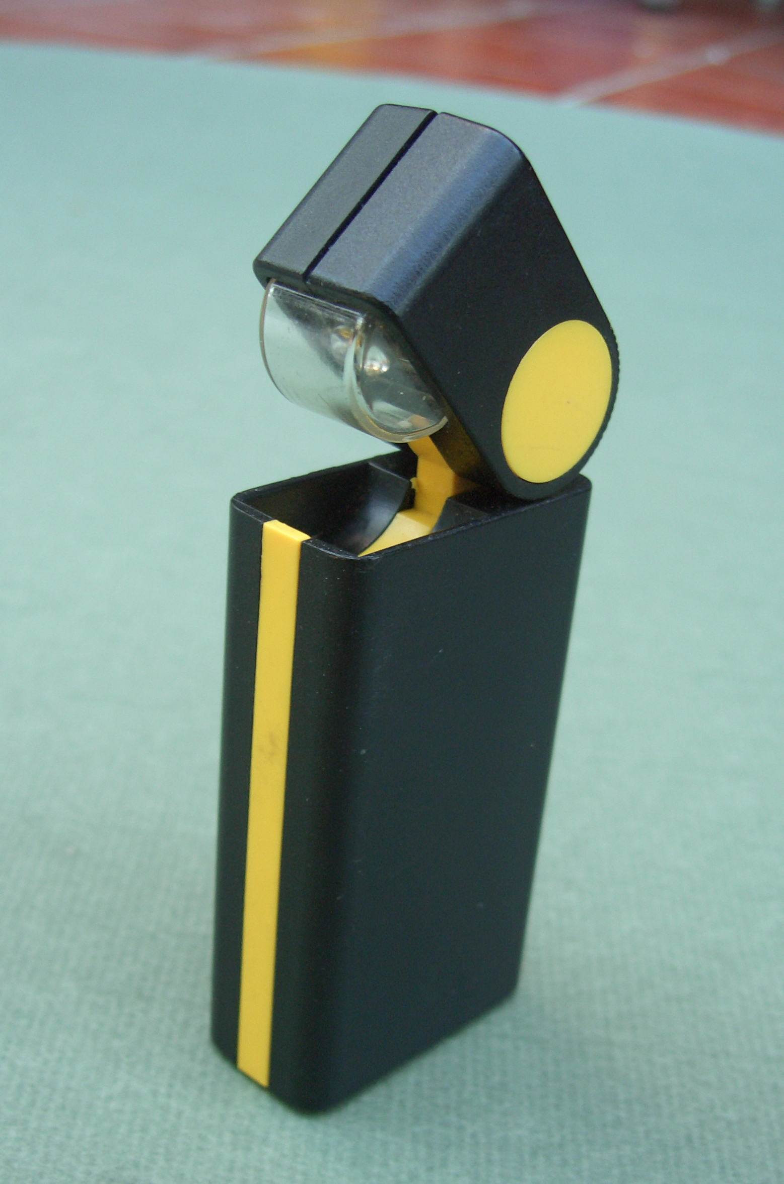 Flashlight "Durabeam" designed by Studio BIB in the 1980s Photo: Christos Vittoratos